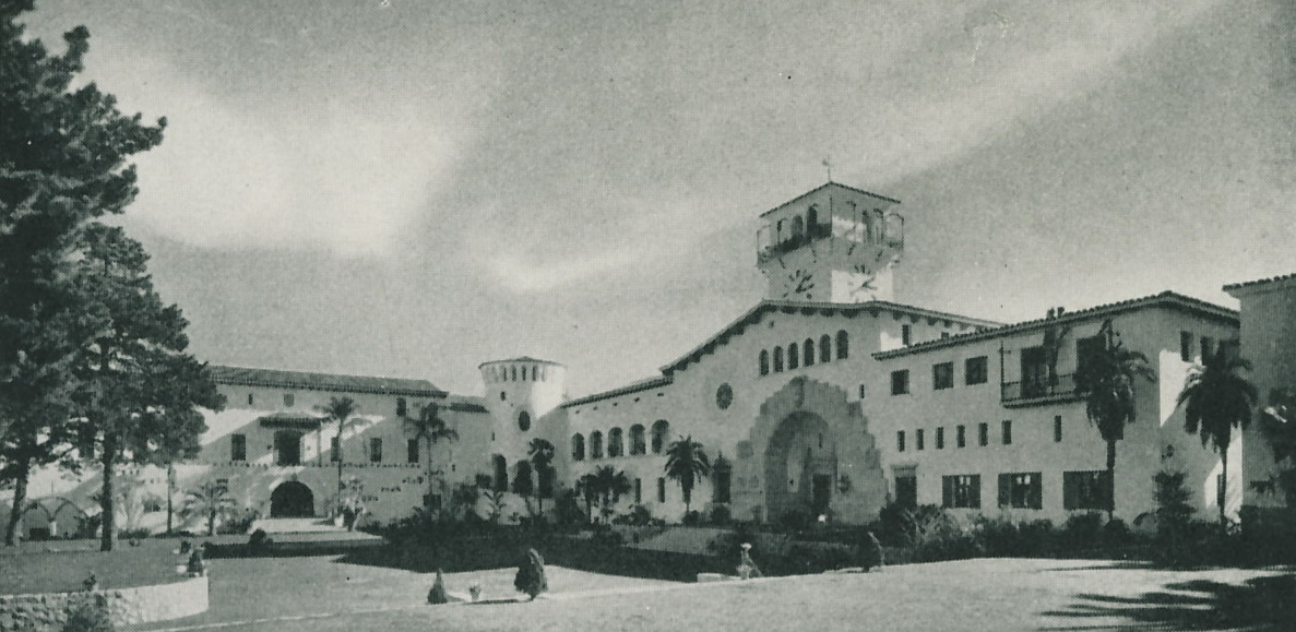 The Santa Barbara County Courthouse in Santa Barbara, California. Dedicated in 1929, it was a major part of Santa Barbara's redevelopment into a Spanish themed city in the 1920s. Picture taken from the book, Santa Barbara: Tierra Adorada (A Community History) 1930.